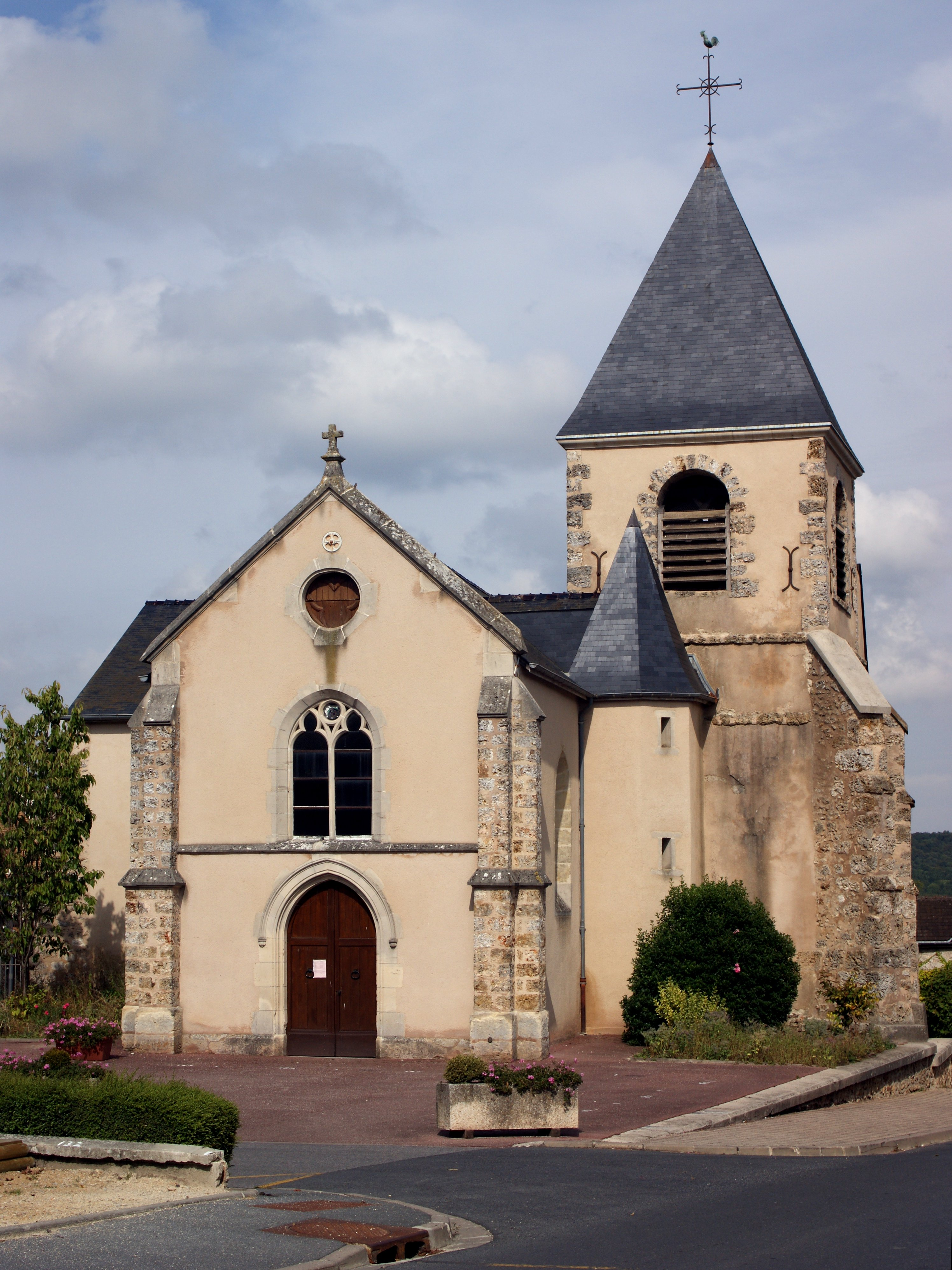 The church in Germaine (Marne, France)